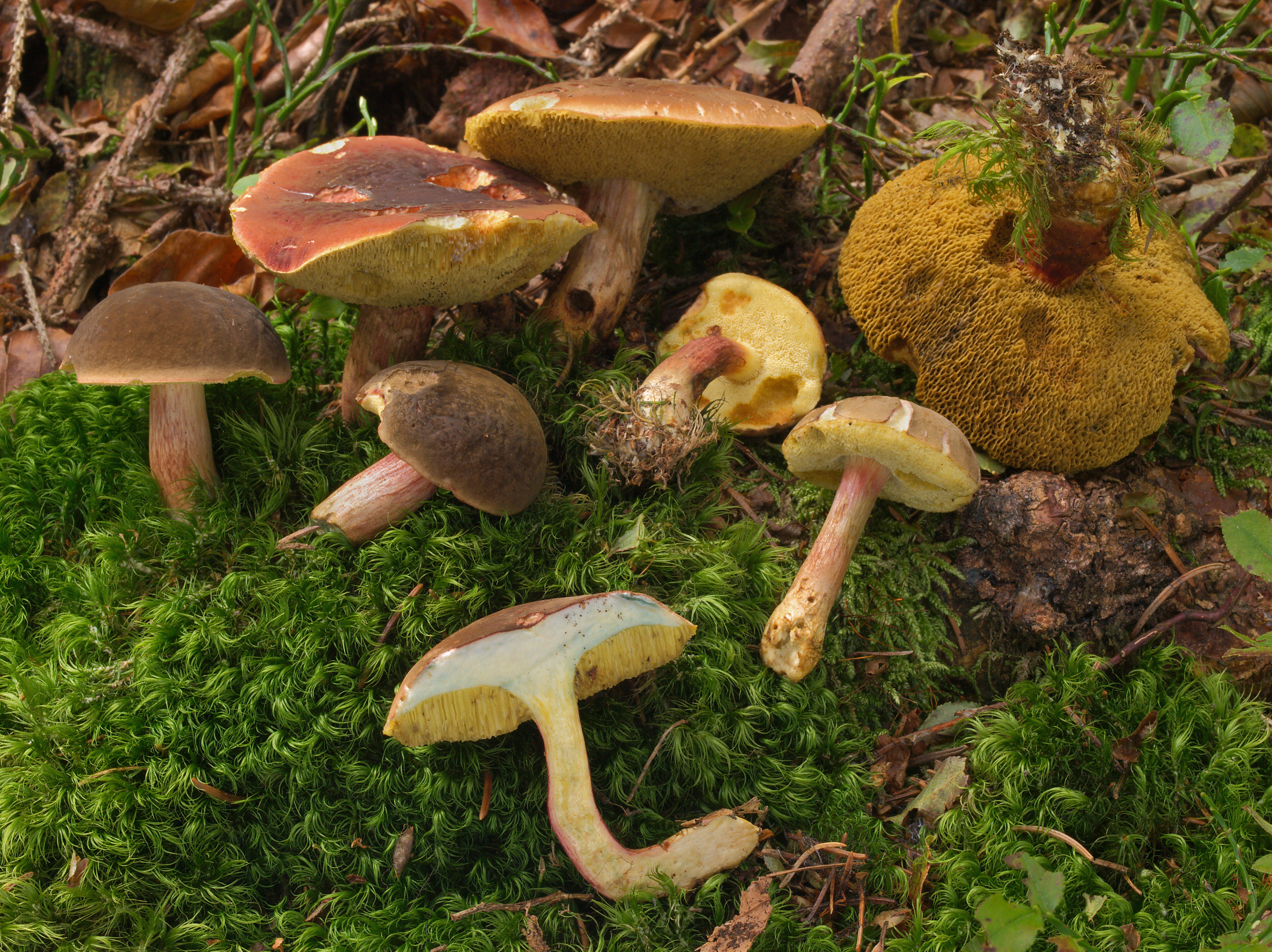 Matt Bolete (Xerocomellus pruinatus)